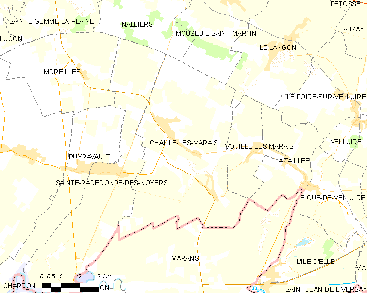 Map of French municipality Chaillé-les-Marais